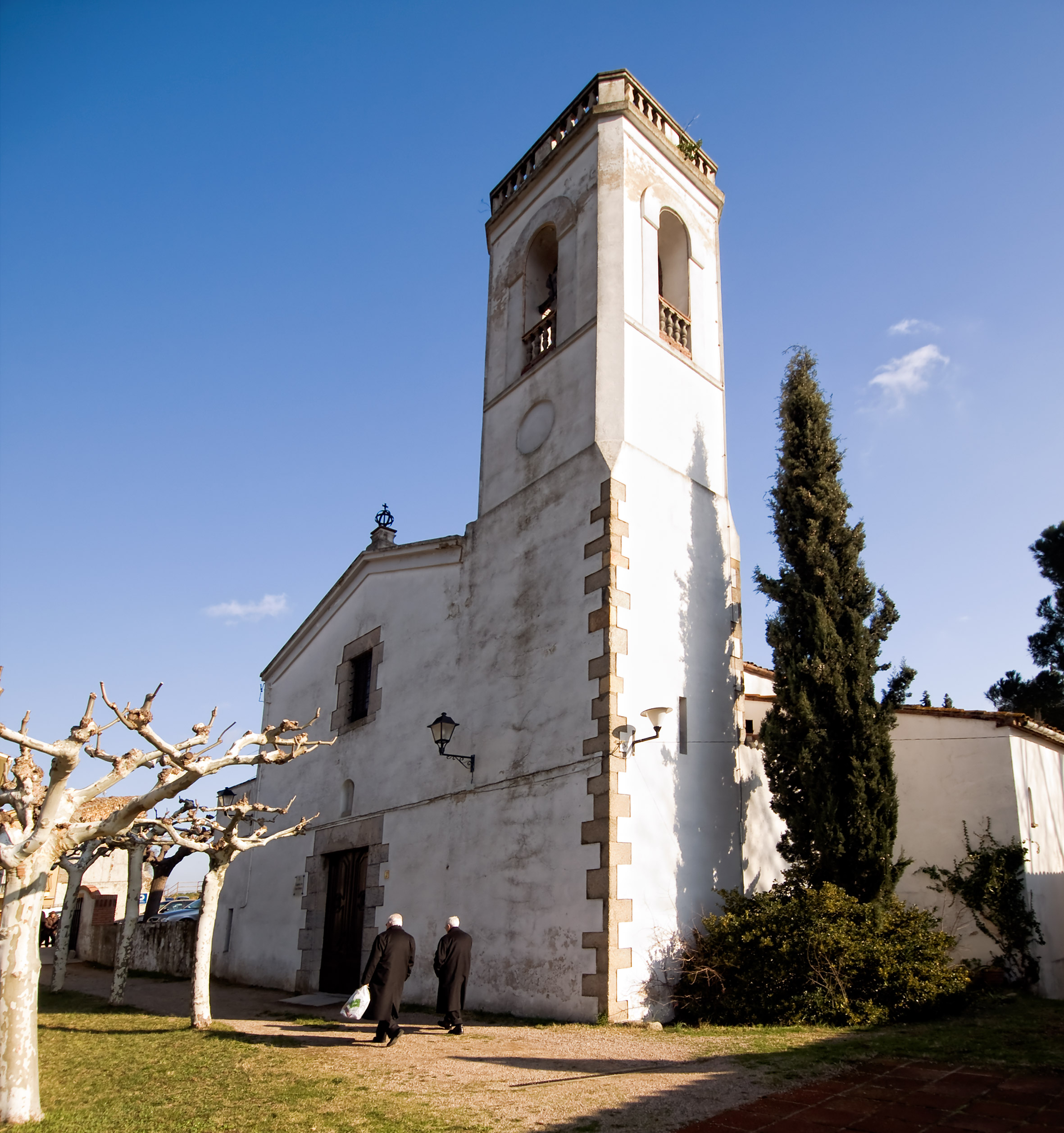 Sant Esteve de Massanes church (Catalonia, Spain)